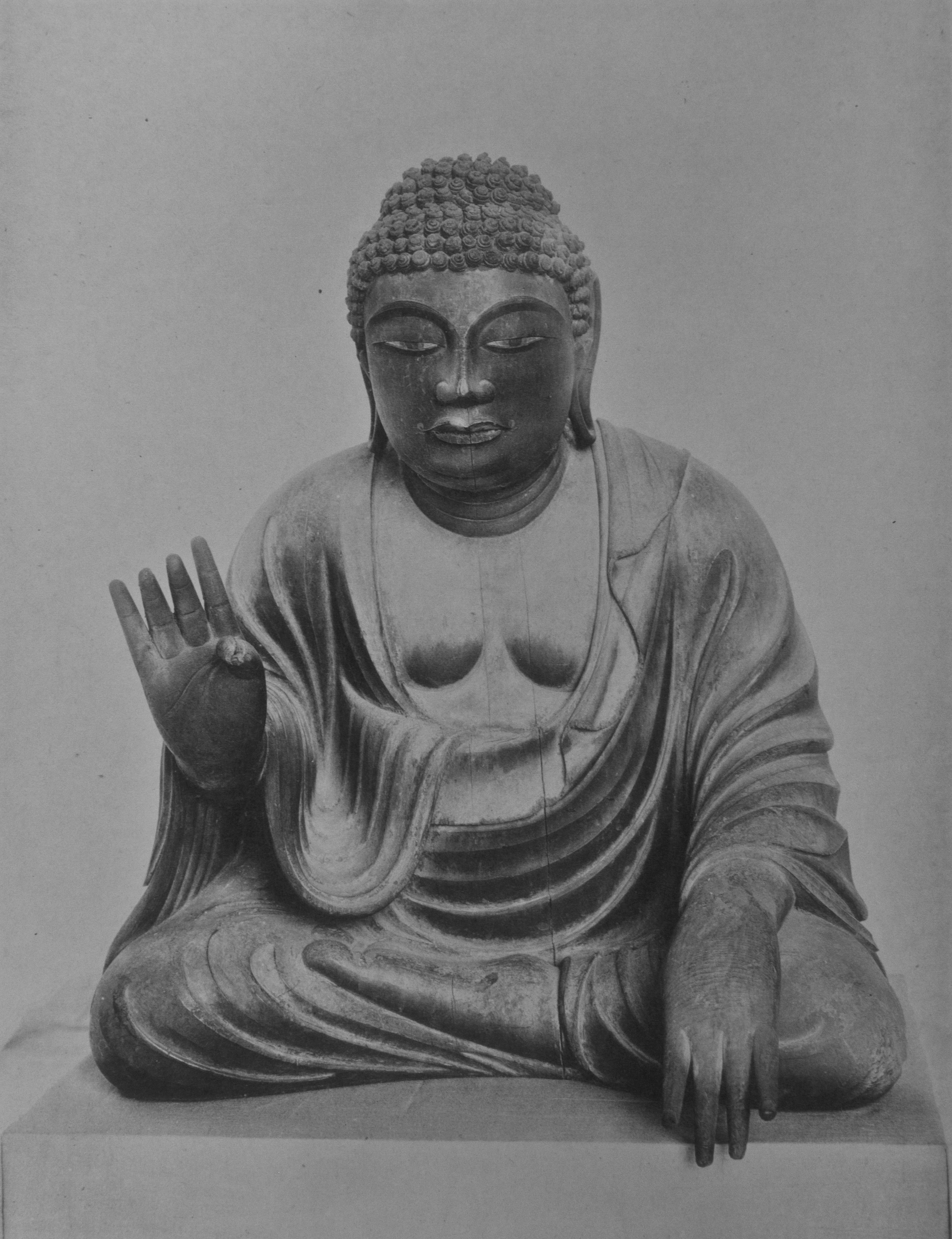 Todaiji, Nara, Japan